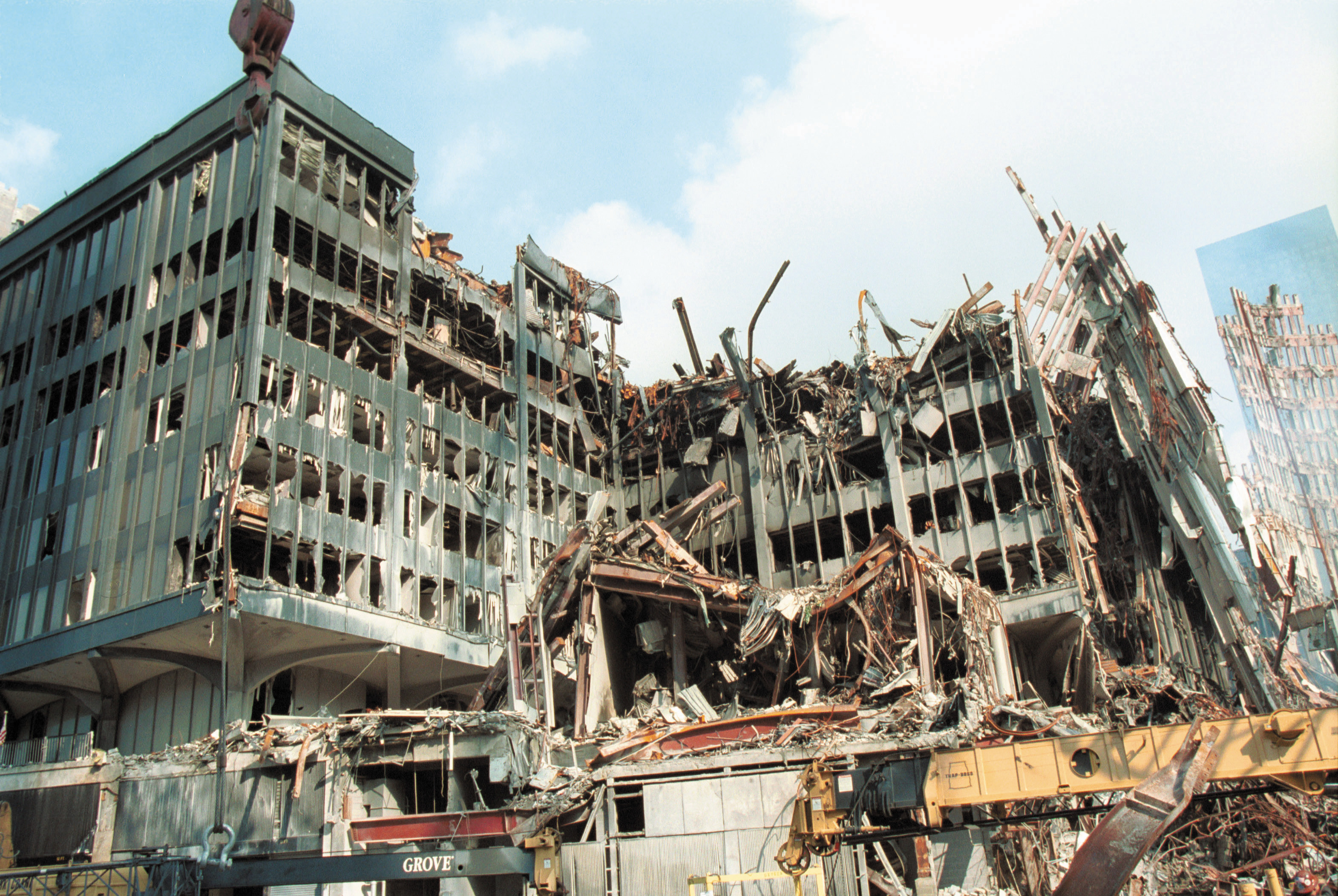 Six World Trade Center, (US Customs House) New York City, New YorkView of southwest corner of the New York Customs House